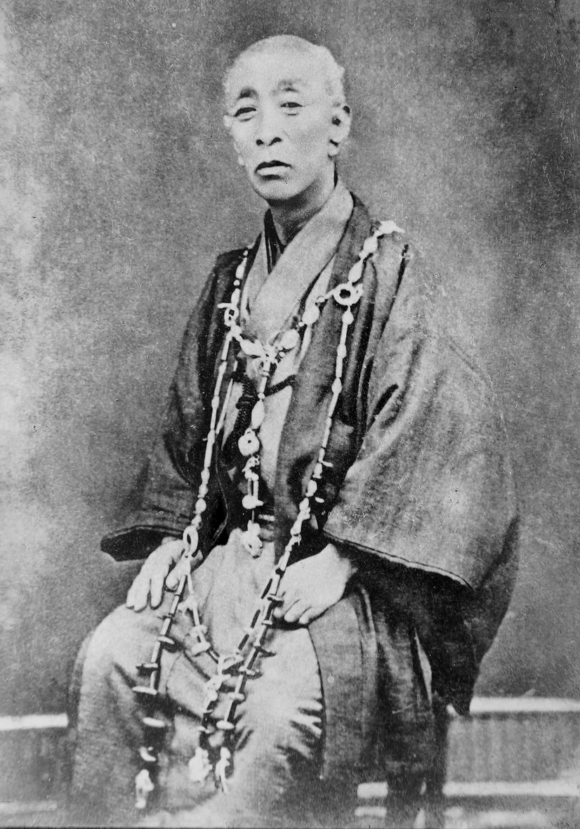 Matsuura Takeshirō photographed in 1885 with his magatama and kudatama necklace, Matsuura Takeshirō Memorial Museum, Matsusaka, Mie, Japan